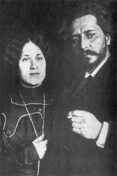 Photo of Daniil Andreev's parents